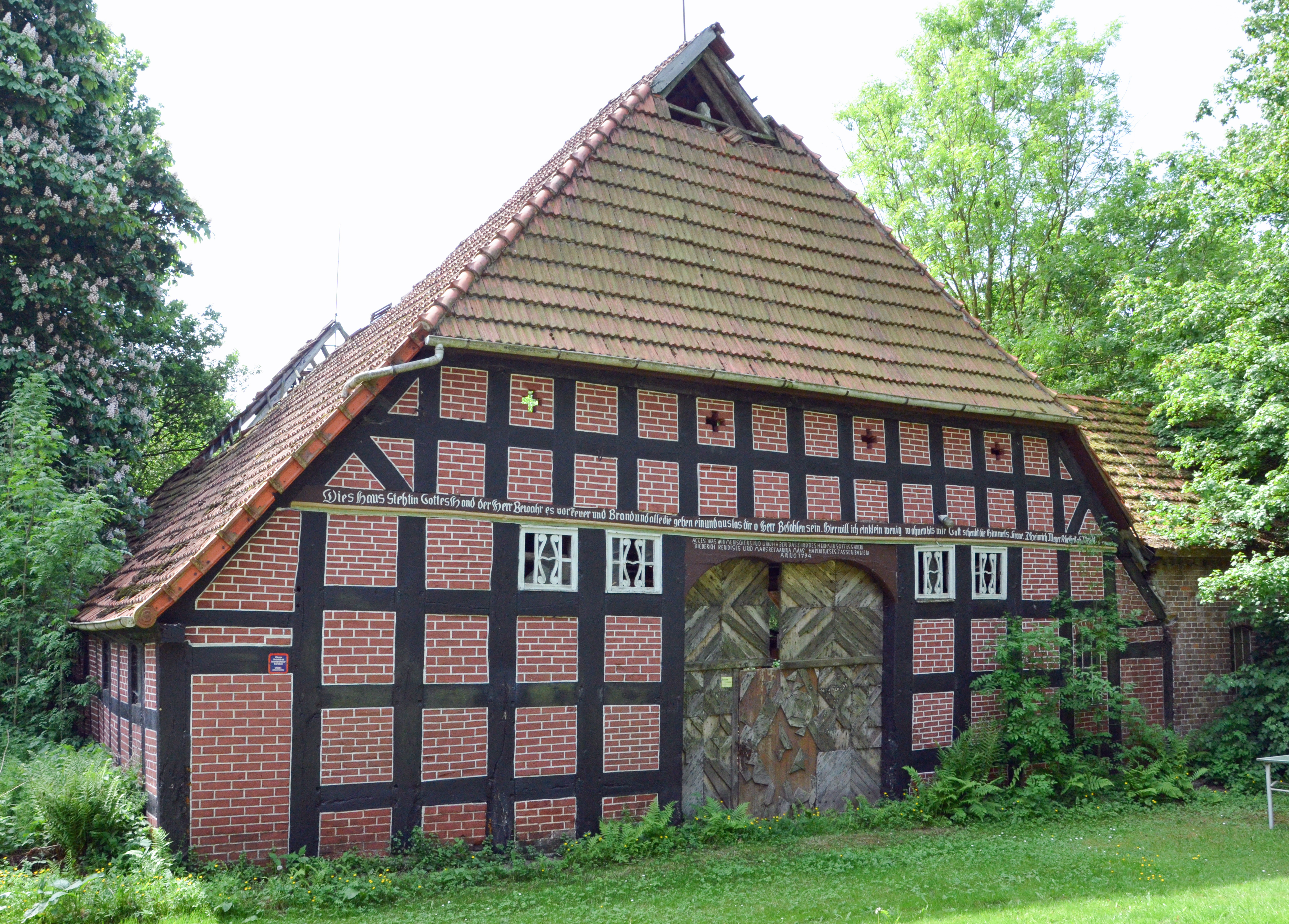 Cultural heritage Monument in Sykew Schnepke